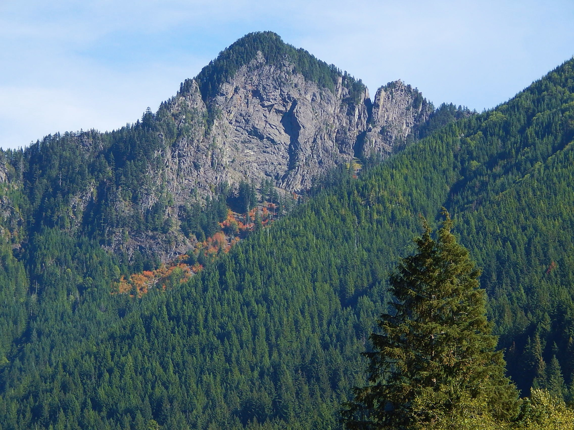 Little Comrade 4365' Near Russian Butte. Seen from Middle Fork Snoqualmie River Road. Washington State